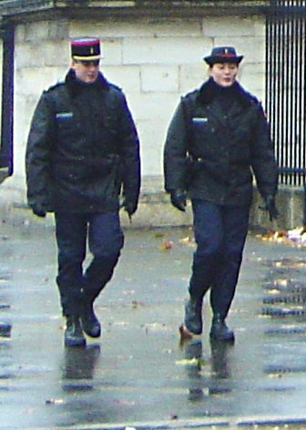 French Republican Guards in front of the National Assembly in Paris